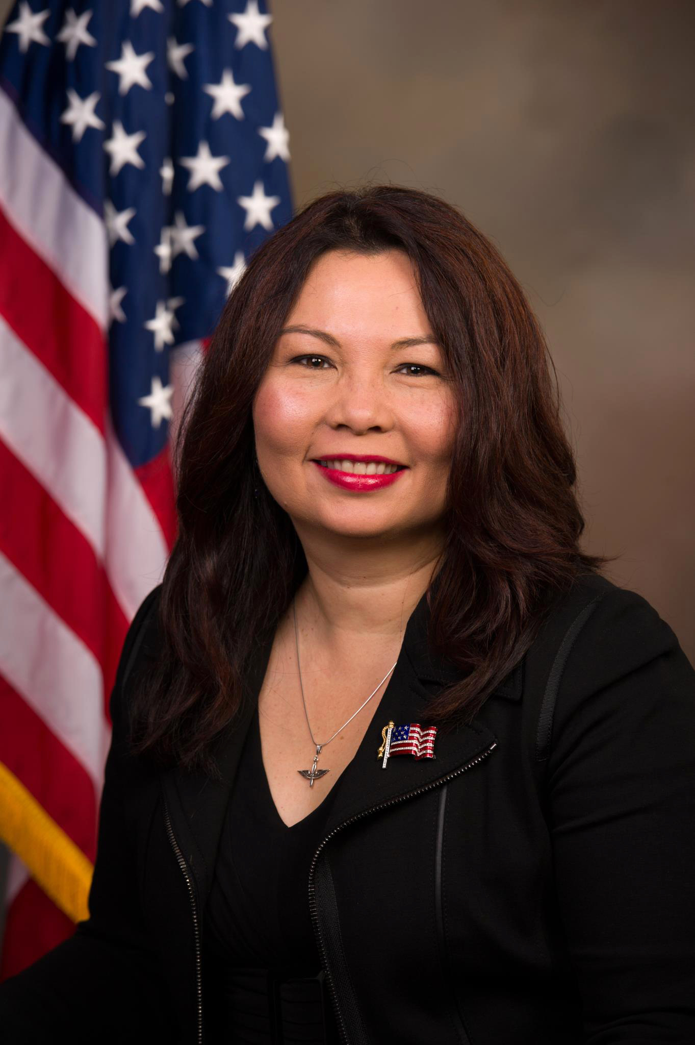 Official portrait of Congresswoman Tammy Duckworth (D-IL).